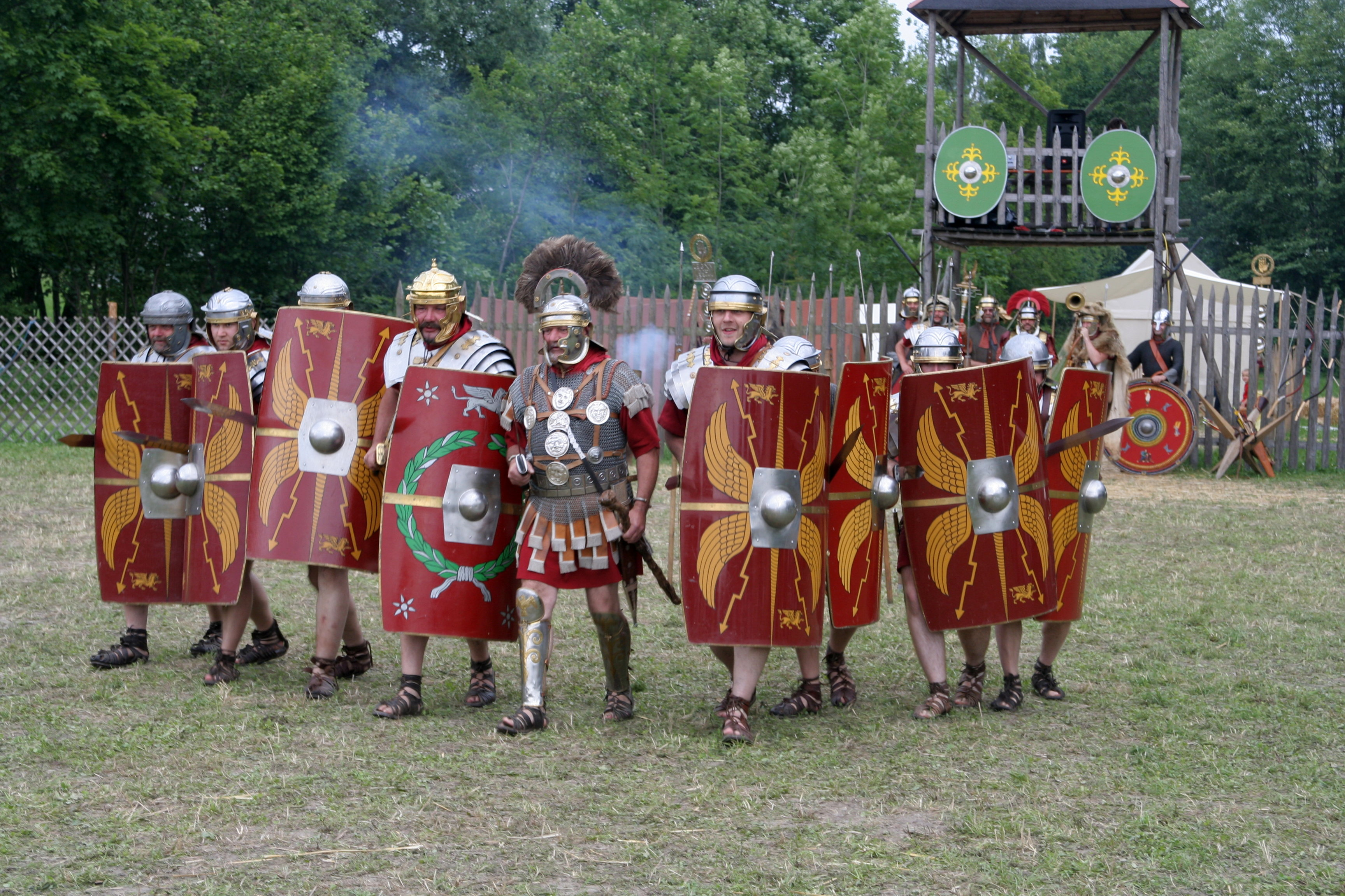 Soldados romanos del 70 adC en ataque. con una fortaleza romana real. Roman soldiers about 70 AD at attack. The background enclosure is not intended to portray a (specific) real roman fortress. Photographed by myself during a show of Legio XV from Pram, Austria